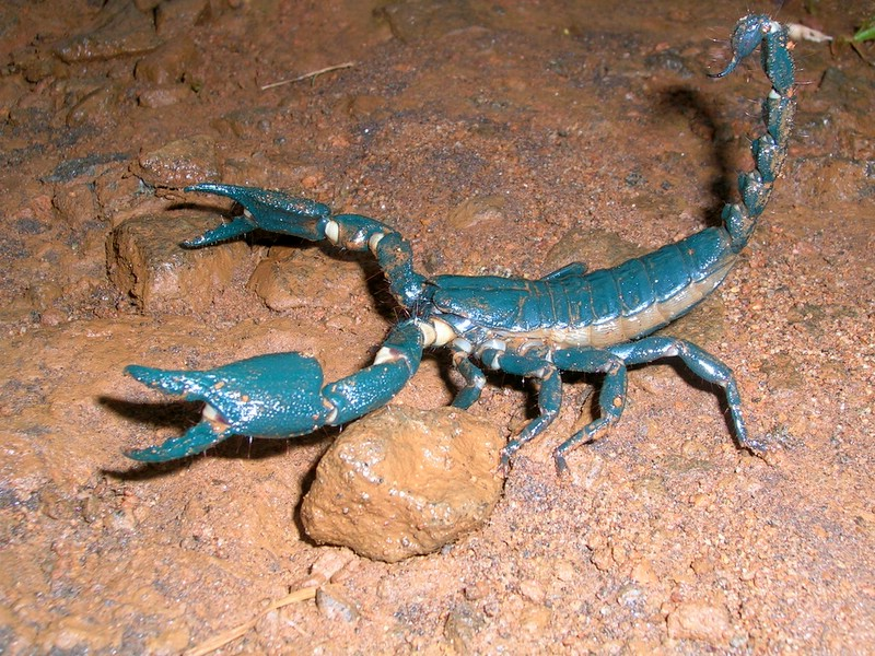 Bottle green scorpion at Talakaveri, Coorg, India